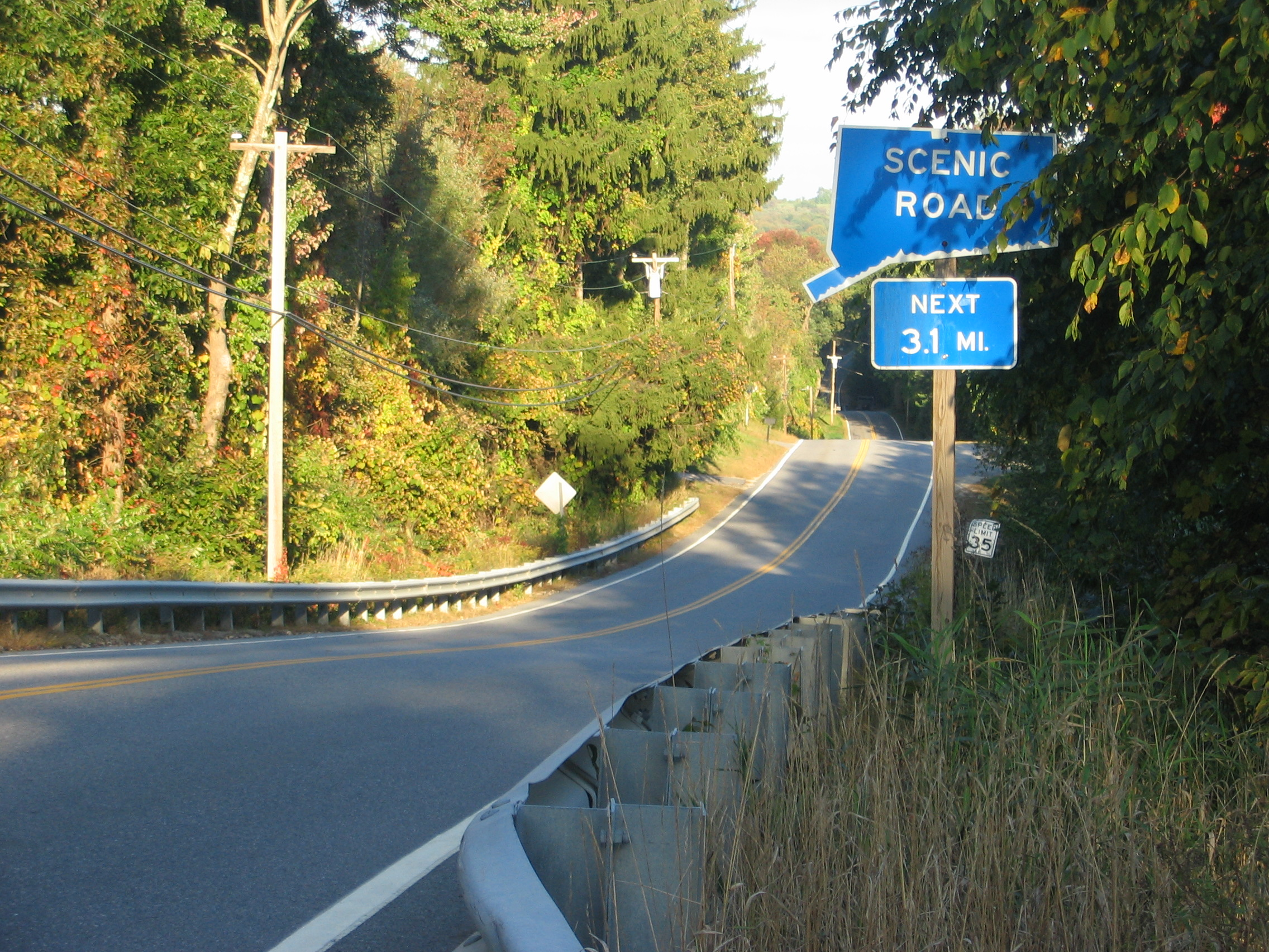 Route 244, Brayman Hollow Road